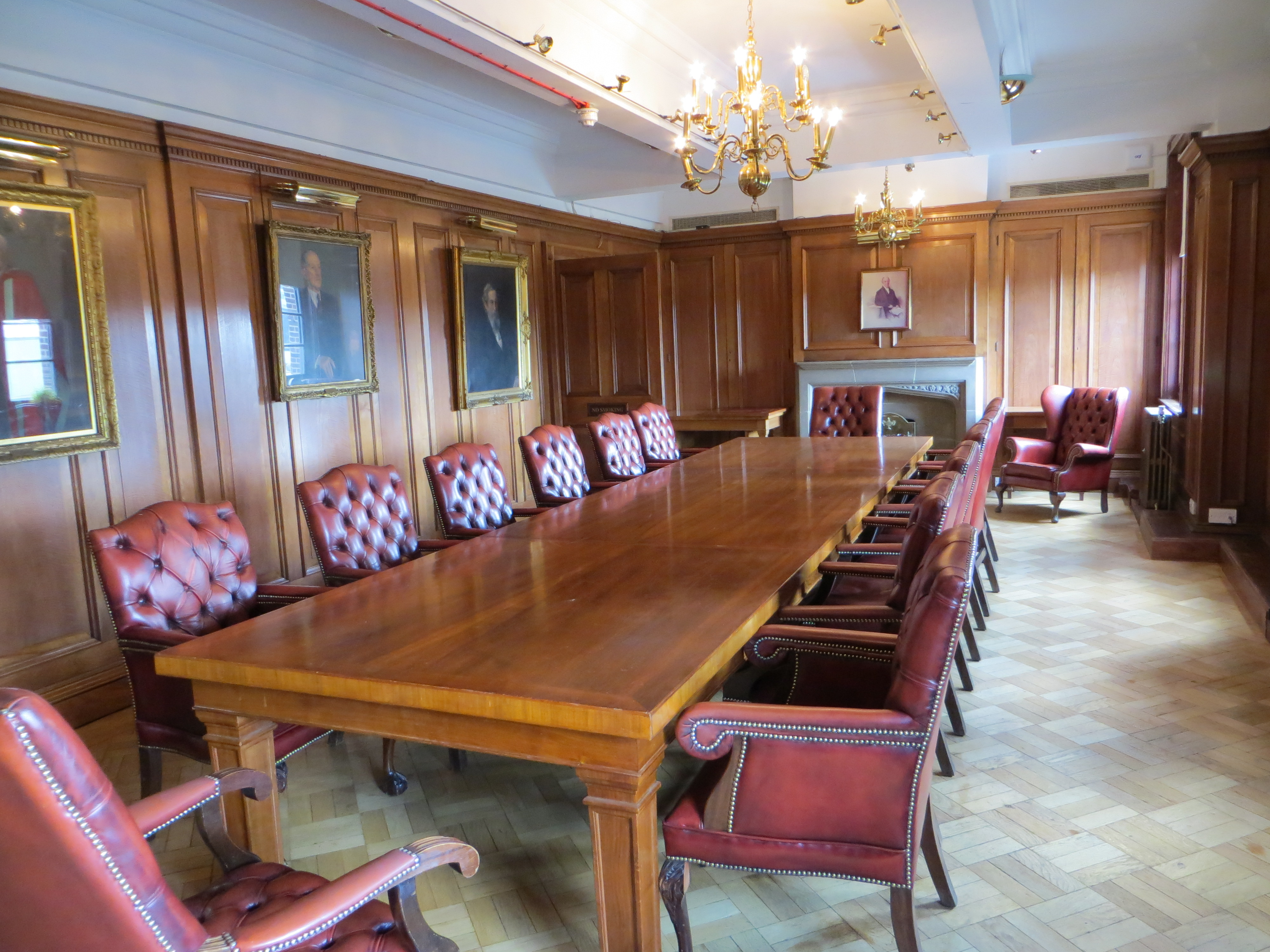 Interior of the Tetley, Leeds. Former brewery offices, now art gallery. The former Board Room of the company.